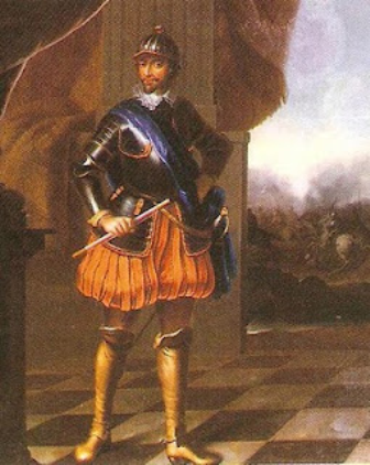 Ferdinand II of Braganza